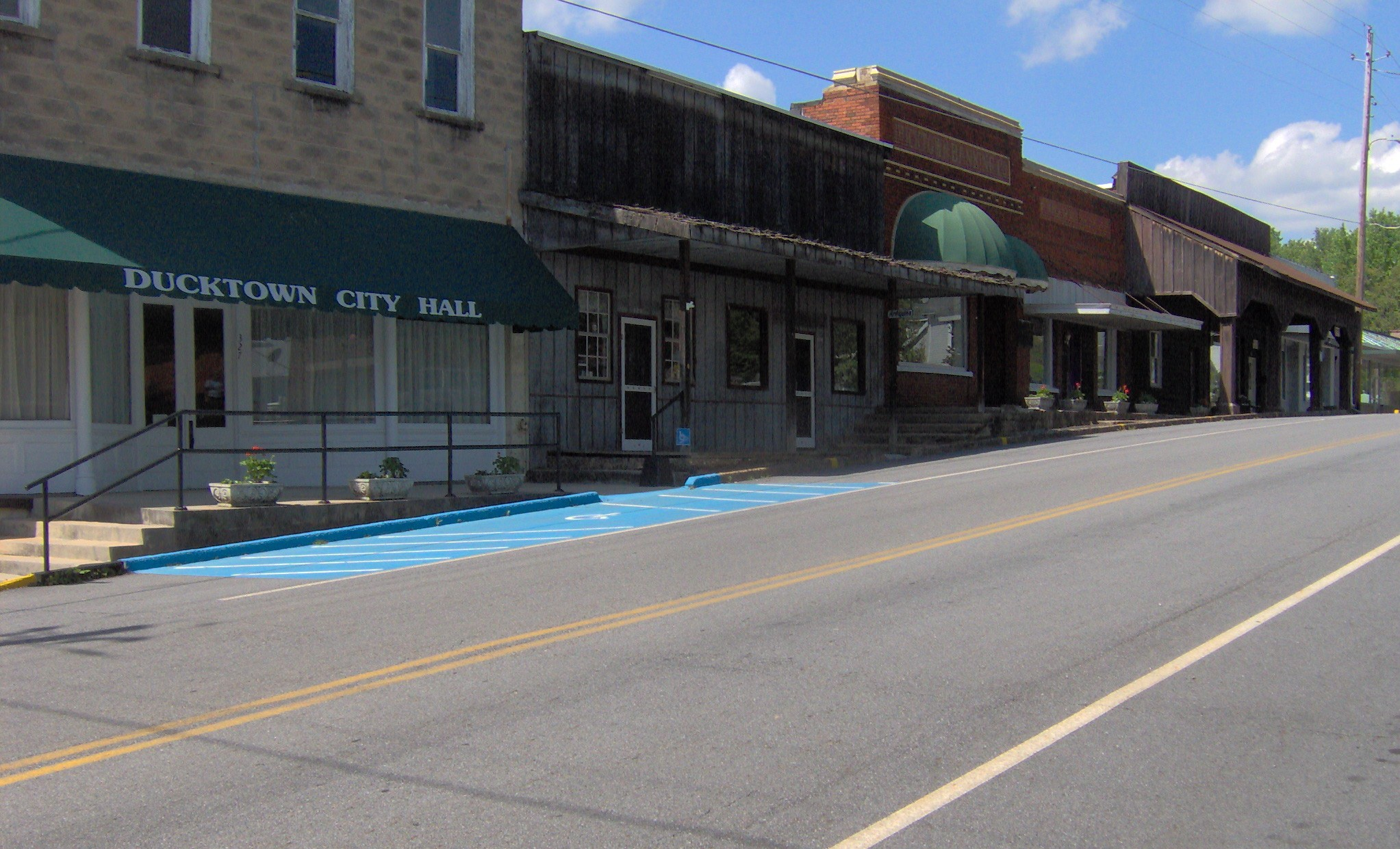 The Ducktown Historic District in Ducktown, Tennessee, in the southeastern United States.